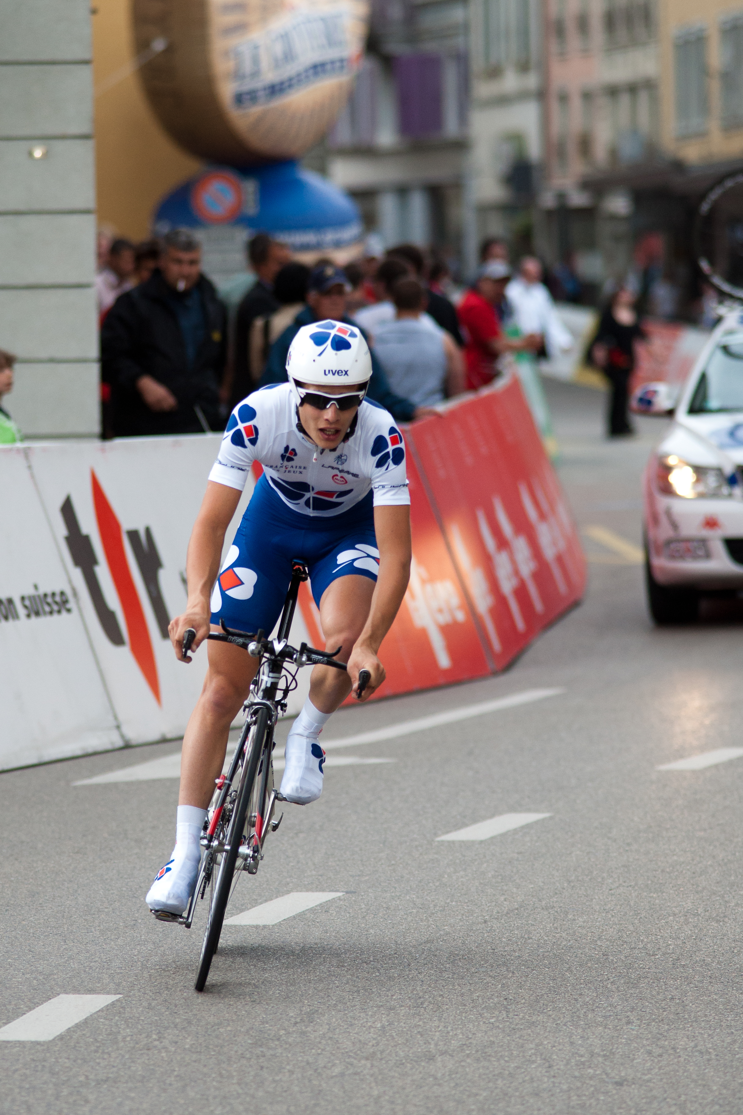 Arthur Vichot during the 3rd stage of the Tour de Romandie 2010.